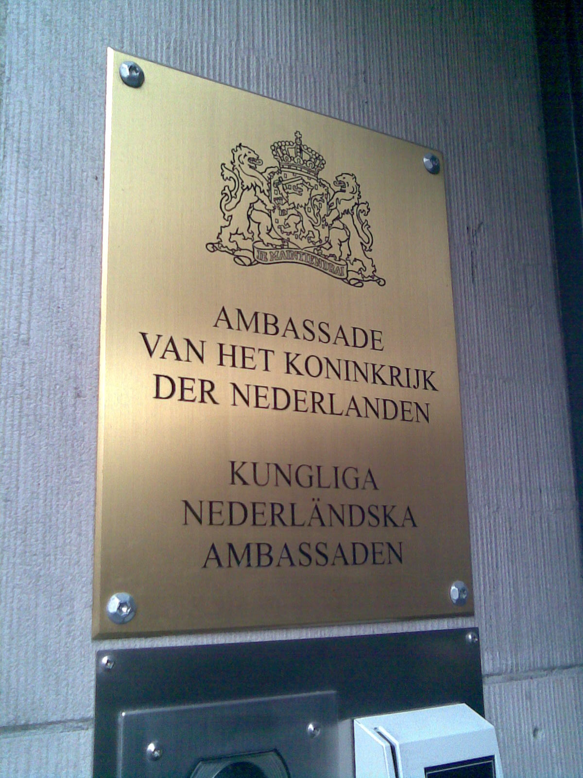 Plate at the Embassy of the Netherlands in Stockholm, Sweden